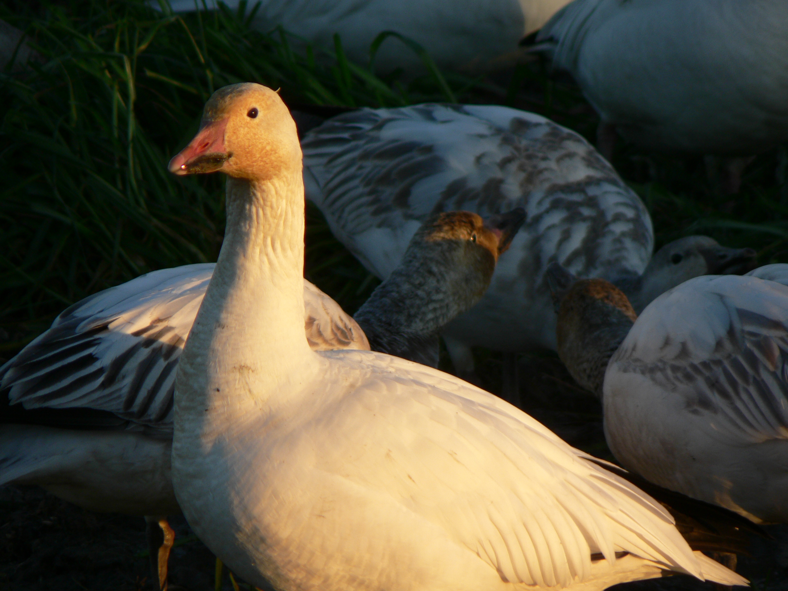 Lesser Snow Goose